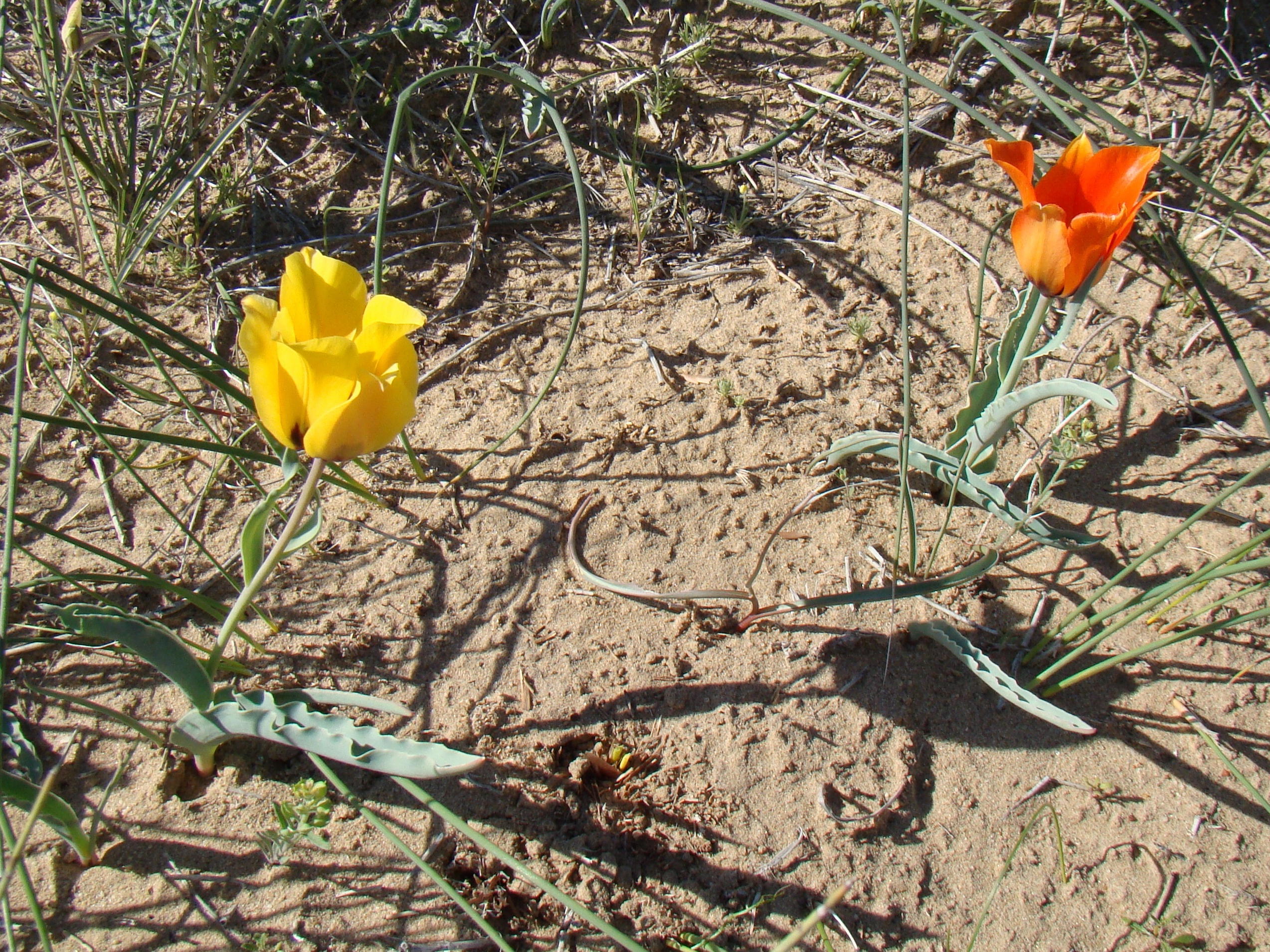 Tulipa borszczowii. Endemic plant of Aral see basin. Baikonur-town, Kazakhstan.